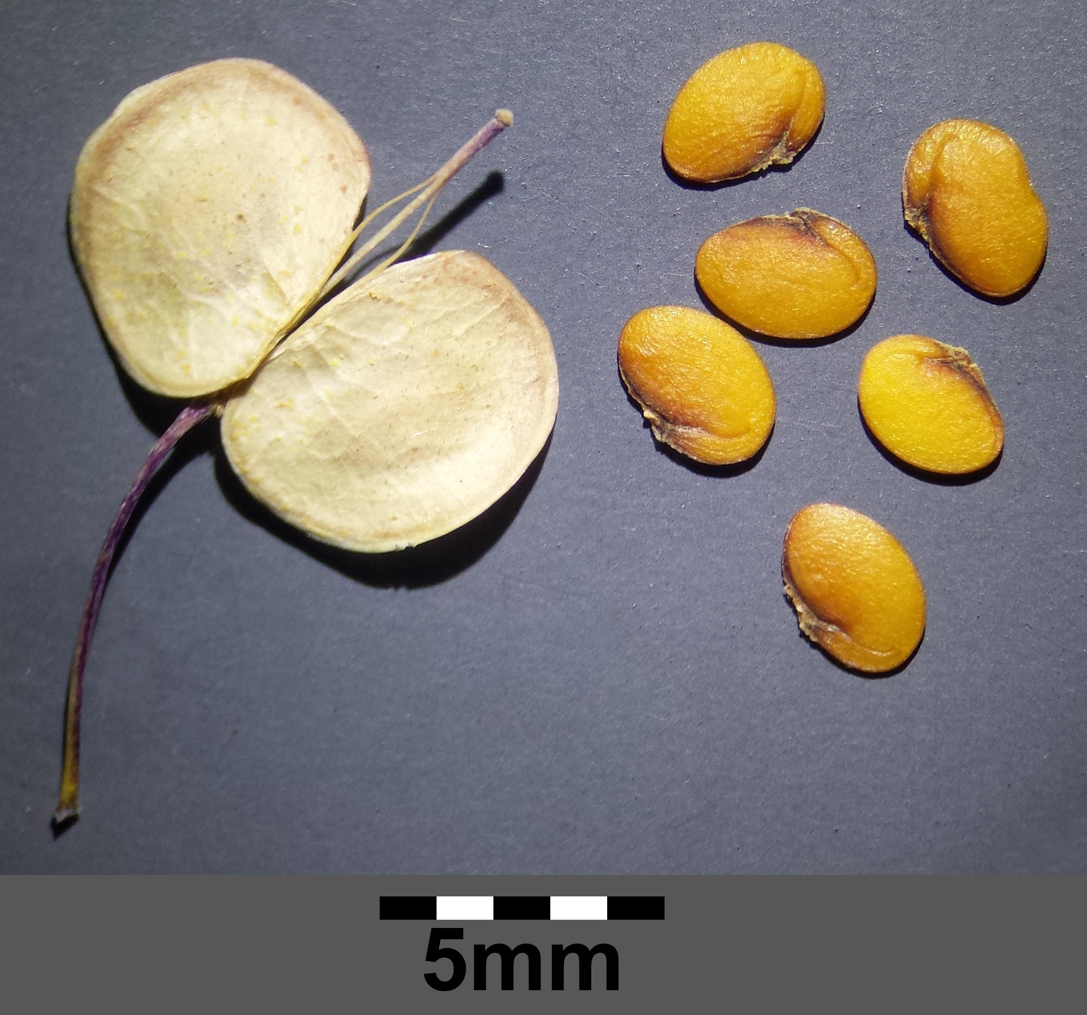 Silique with seeds (leg: 2015-05-17) Taxonym: Biscutella laevigata subsp. kerneri ss Fischer et al. EfÖLS 2008 ISBN 978-3-85474-187-9 Location: Biratalwand Dürnstein, district Krems-Land, Lower Austria - ca. 350 m a.s.l. Habitat: rocky slope